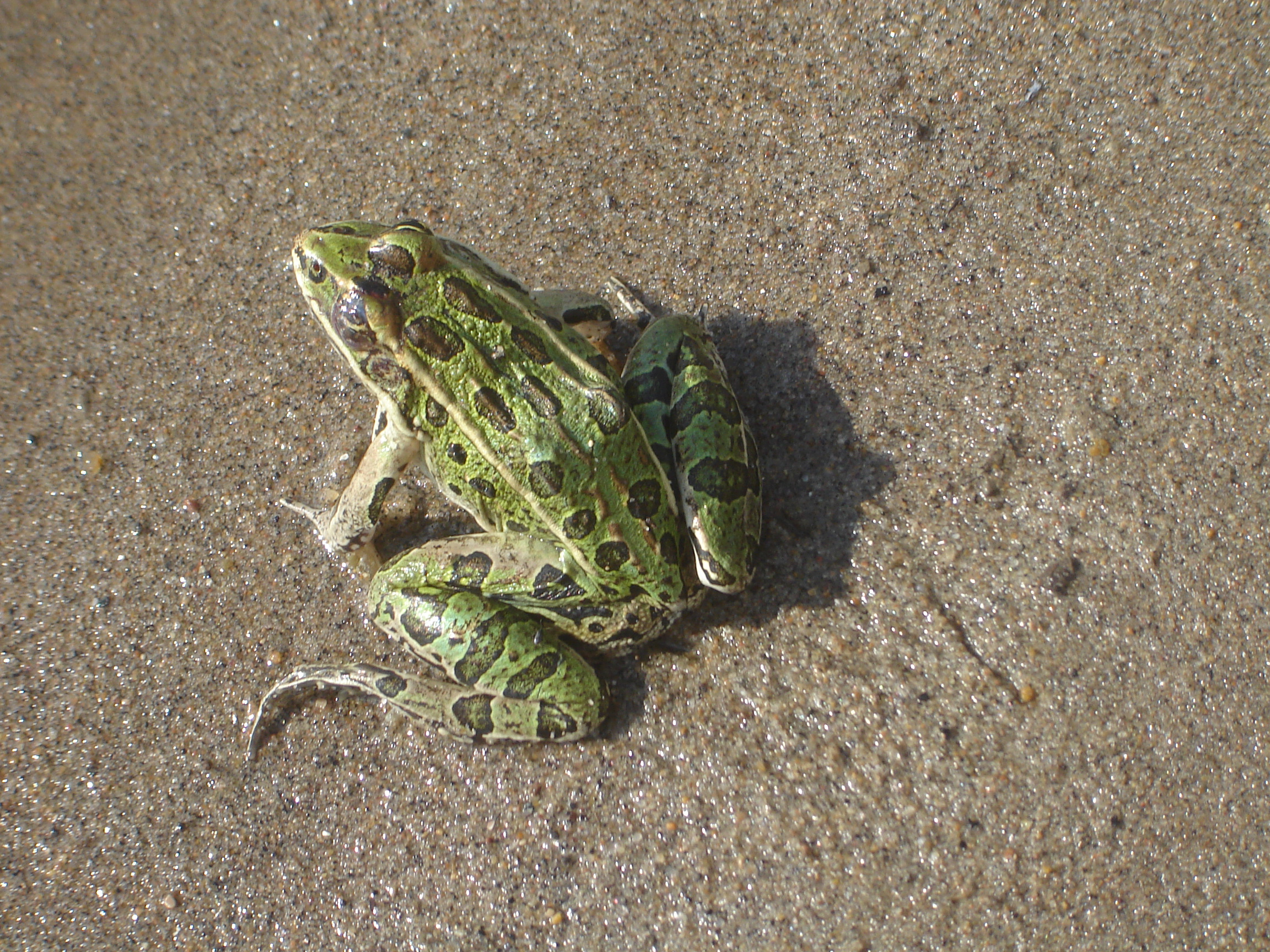 Northern Leopard Frog Rana pipiens on the South Saskatchewan River Frogs in Saskatchewan NCC Saskatchewan Blog: FEATURE SPECIES - Northern Leopard Frog